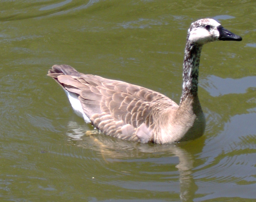 A hybrid between a Canada goose and a domesticated goose. Taken at Crystal Lake Park in Urbana, Illinois.